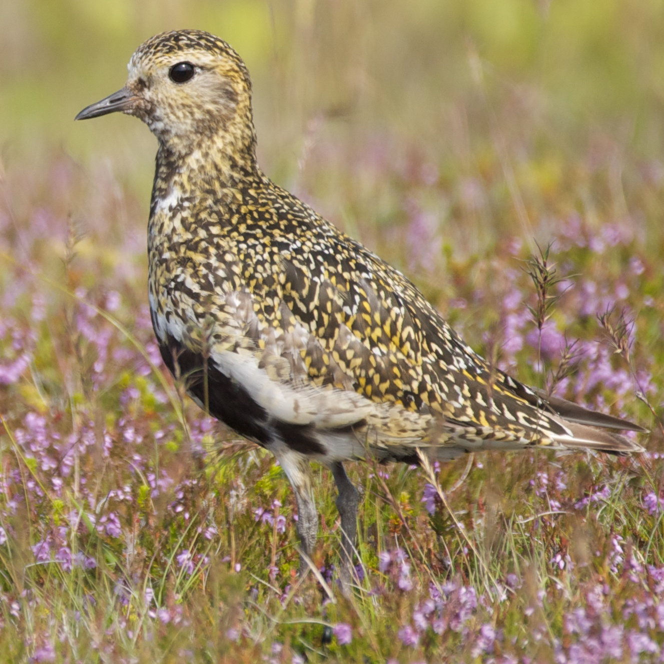 Eurasian Golden Plover